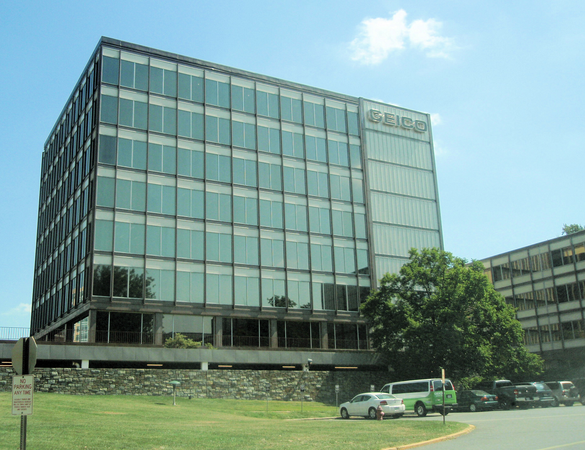 GEICO headquarters in Chevy Chase, Maryland, on the border with Washington, D.C.